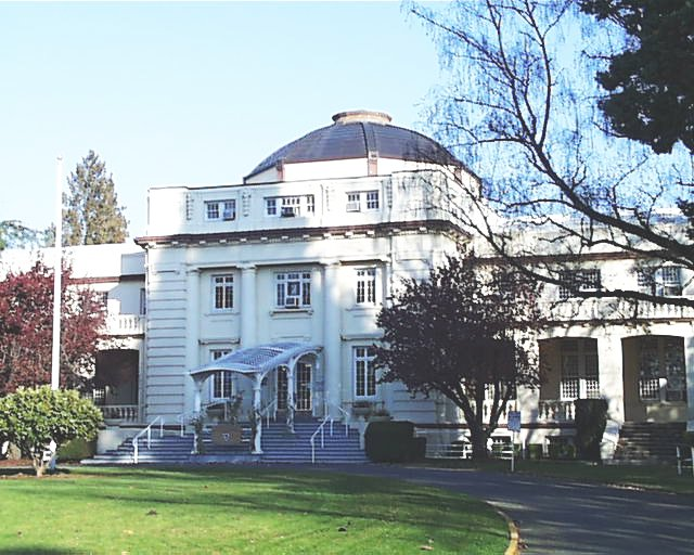 The 1912 "Dome Building" on the grounds of the Oregon State Hospital, now used as the headquarters for the Oregon Department of Corrections. "One Flew Over the Cuckoo's Nest" was filmed here as well as in the infamous main "J Building" of the Oregon State Hospital across the street.